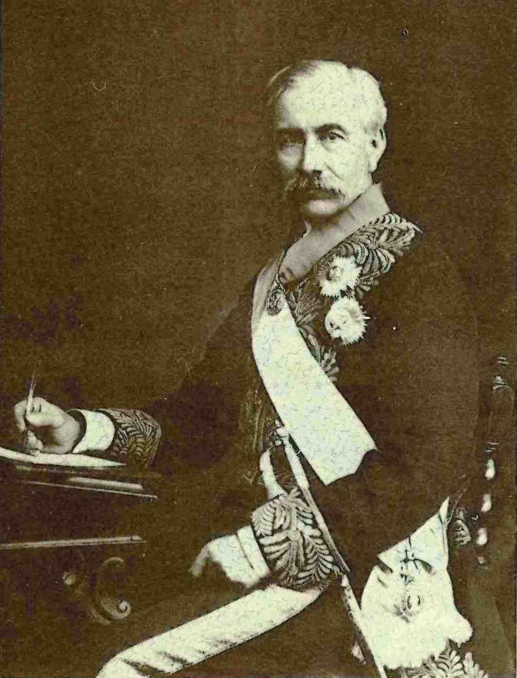 British Governor of Southern Africa Sir Henry Bartle Frere - Cape Archives Depot